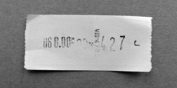 A ticket from Setright Machine. Vltava Ferry in Dolní Vltavice, Lipno Reservoir.